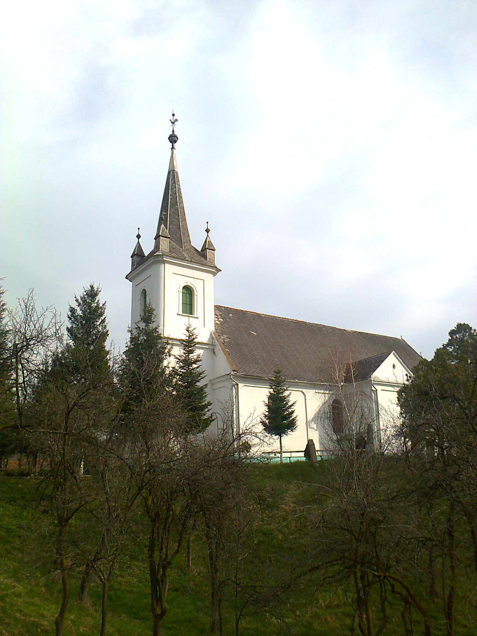 Reformed church in Zauan (Romania)